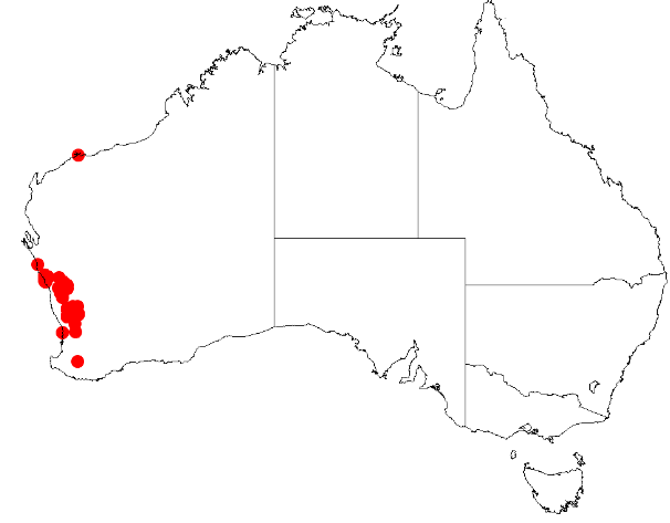 Acacia congesta Occurrence data from Australasia Virtual Herbarium downloaded from on 8 December 2018